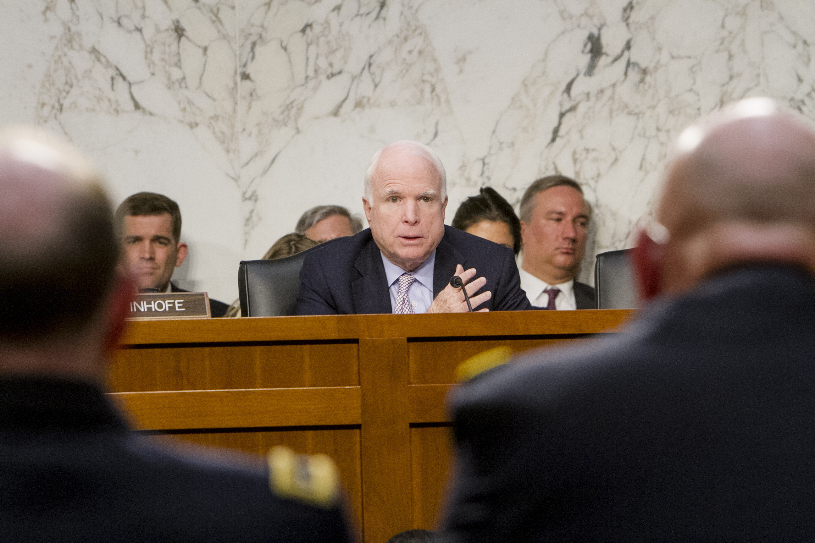 Sen. John McCain addresses military leaders during the U.S. Senate Arms Services Committee's hearing, on Capitol Hill in Washington, D.C., June 4, 2013. Senior military leaders testified before the committee about sexual assault in the military. (Photo by Staff Sgt. Sean K. Harp)